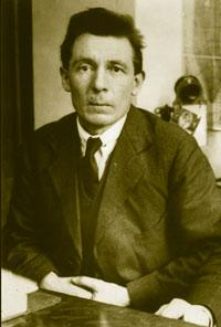 Postcard of Austin Stack issued after Easter Rising